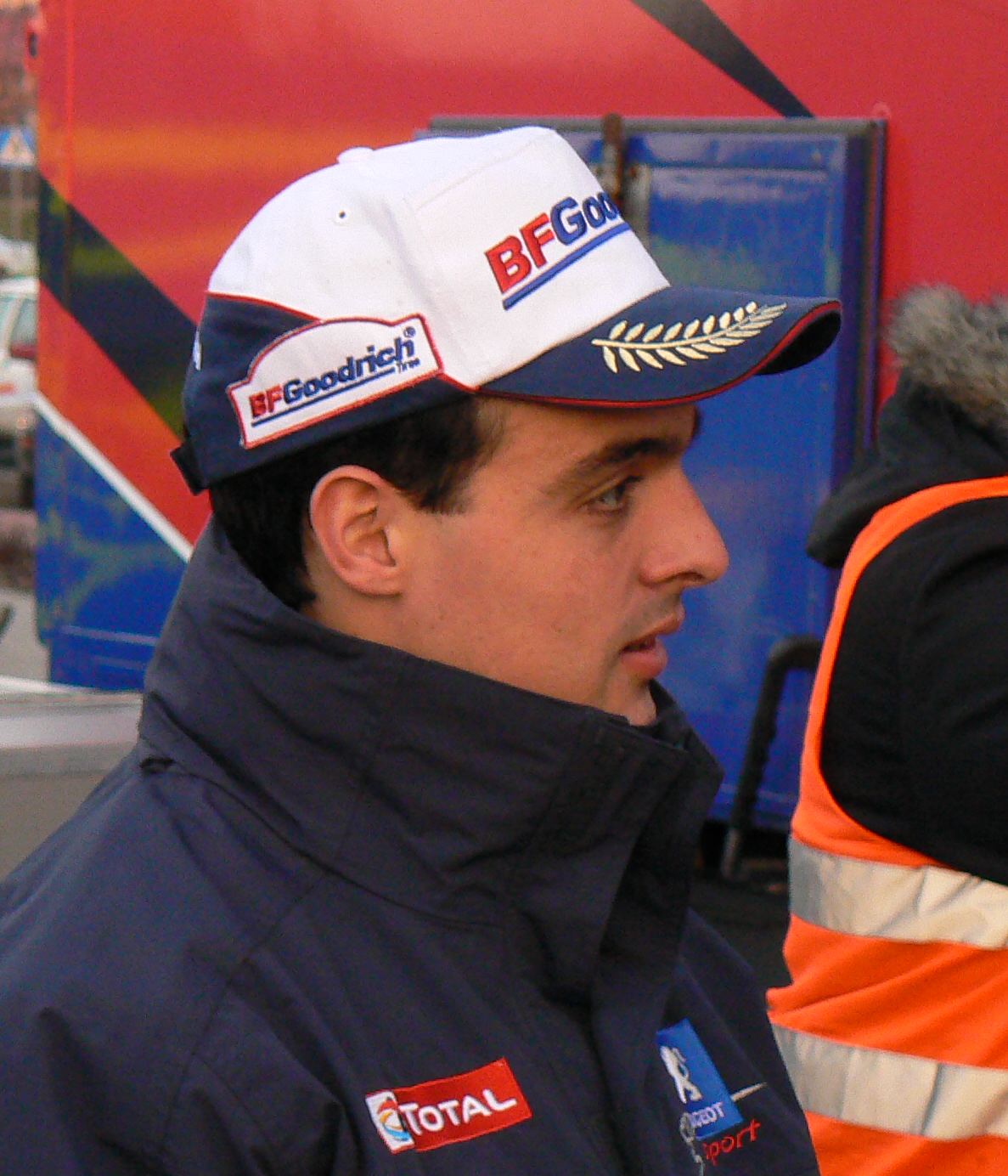 Bryan Bouffier during the 2007 Barbórka Rally (45. Rajd Barbórki).